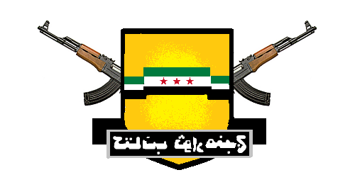 Adapted, simplified version of the flag of the Manbij Revolutionaries Battalion.